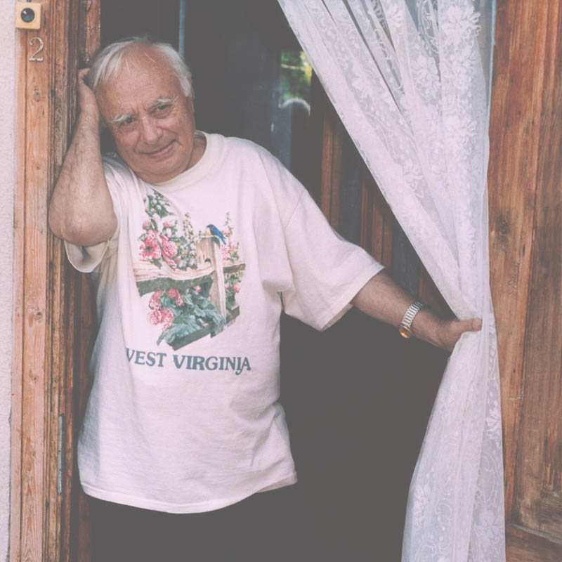 The Moldavian writer Vasile Vasilache.